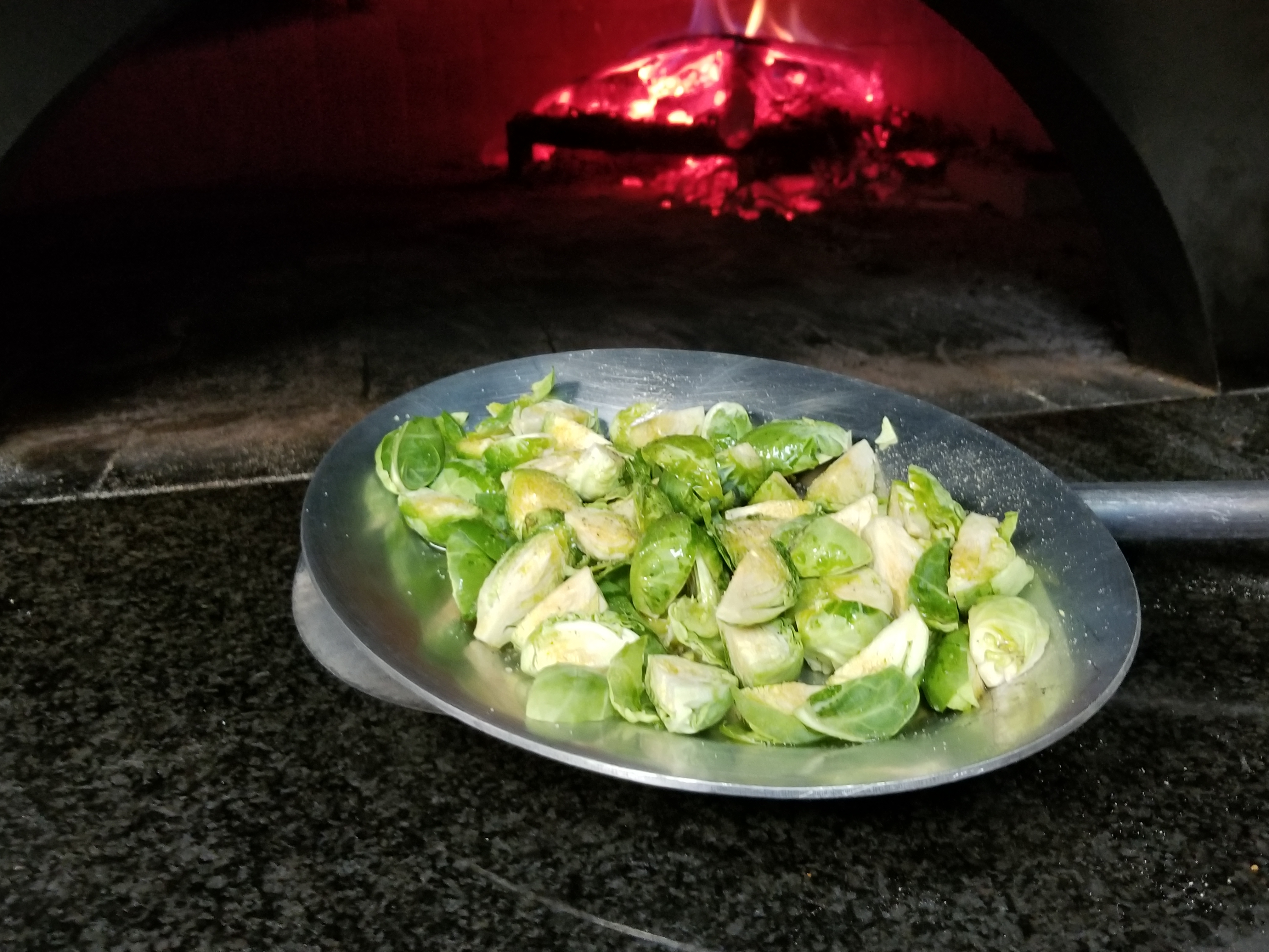 Brussels sprouts made in a wood-fired pizza oven by Baronessa Italian Restaurant in Rockville, MD